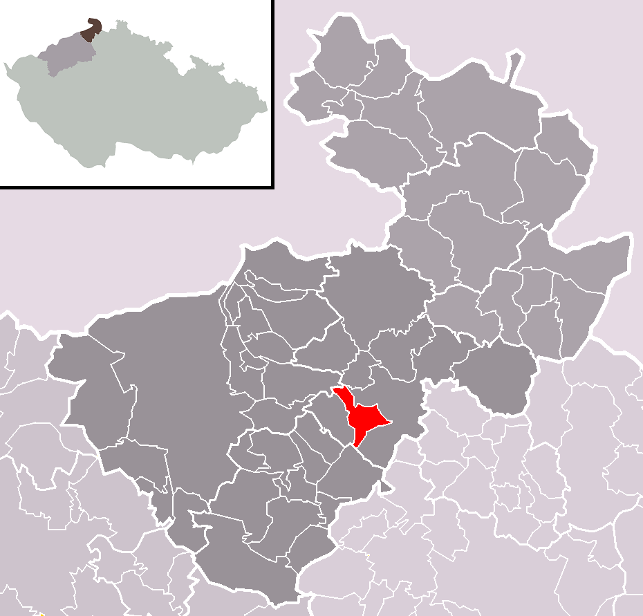 Location of Veselé municipality within Děčín District and administrative area of Děčín as a Municipality with Extended Competence.